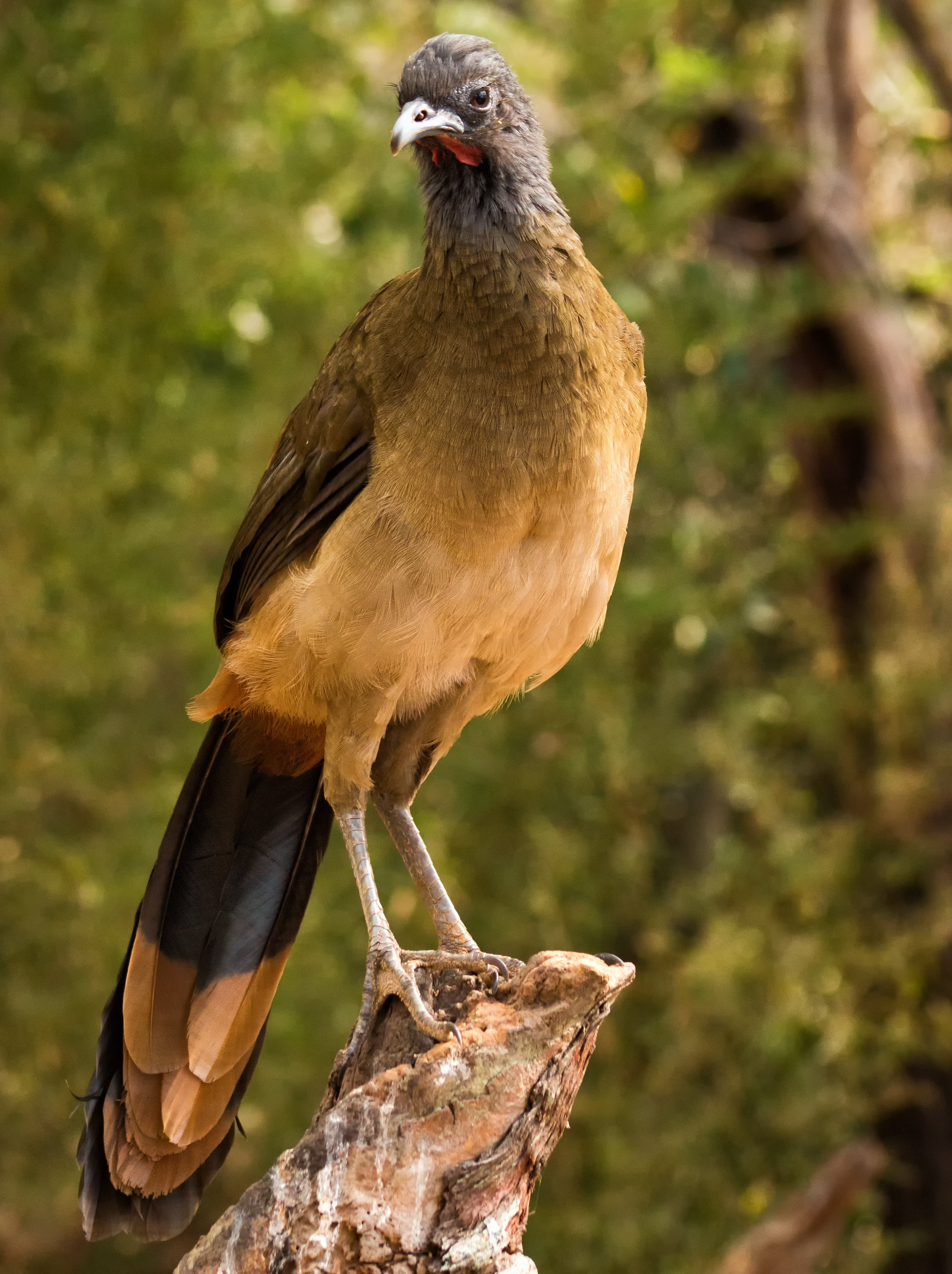 Crop of file in filename